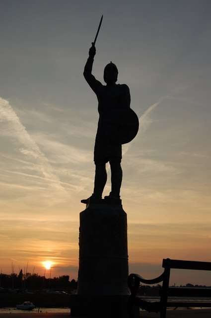 Brythnoth at Sunset This bronze cast statue of Brythnoth, Saxon hero of the Battle of Maldon against the Danes, stands at the end of the promenade at Maldon.